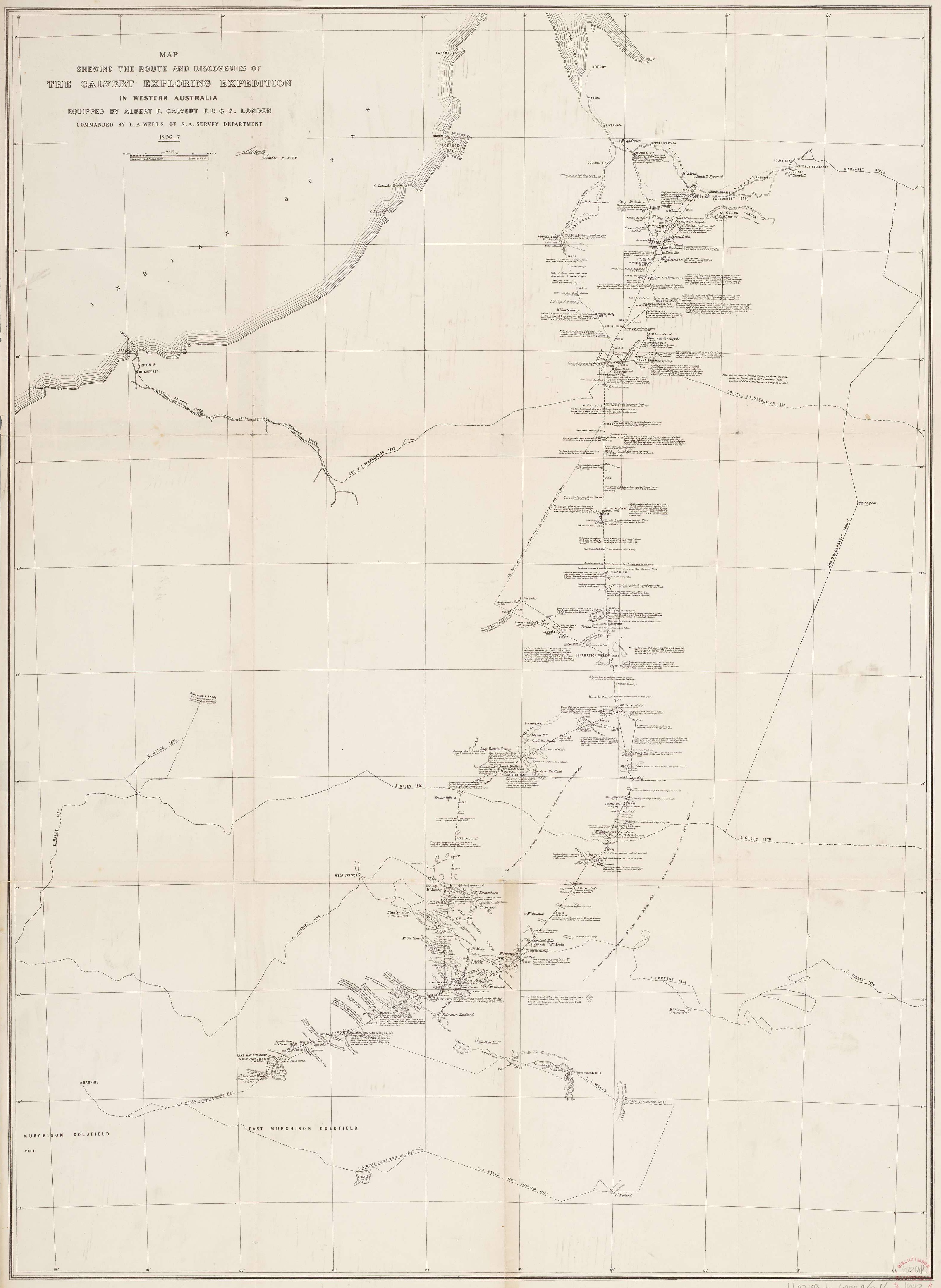 Map shewing the route and discoveries of the Calvert Exploring Expedition in Western Australia : equipped by Albert F. Calvert F.R.G.S. London, commanded by L.A. Wells of S.A. Survey Department, 1896-7 / comp. by L.A. Wells ; drawn by W.F.H. [ca. 1:1.500.000] lithography ; 86 x 62 cm